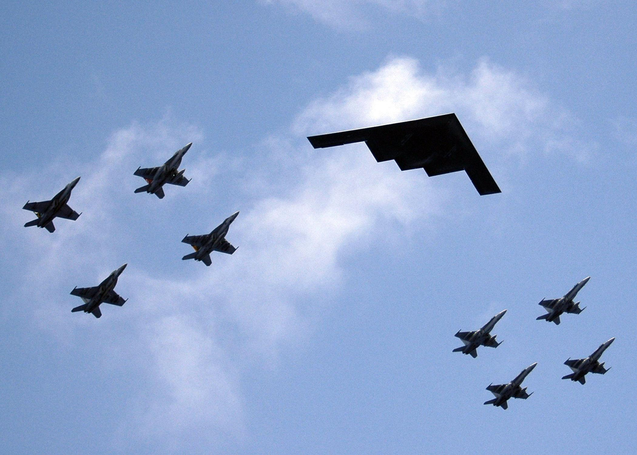 A B-2 Stealth Bomber from Whiteman AFB in Missouri leads an aerial flight formation during exercise Valiant Shield. The Abraham Lincoln Strike Group is currently participating in Exercise Valiant Shield, 2006, the largest joint exercise in recent history. Held off the coast of Guam, it involves 28 naval vessels including three carrier strike groups. More than 300 aircraft and approximately 20,000 service members from the Navy, Army, Air Force, Marine Corps and Coast Guard are also participating in the exercise.